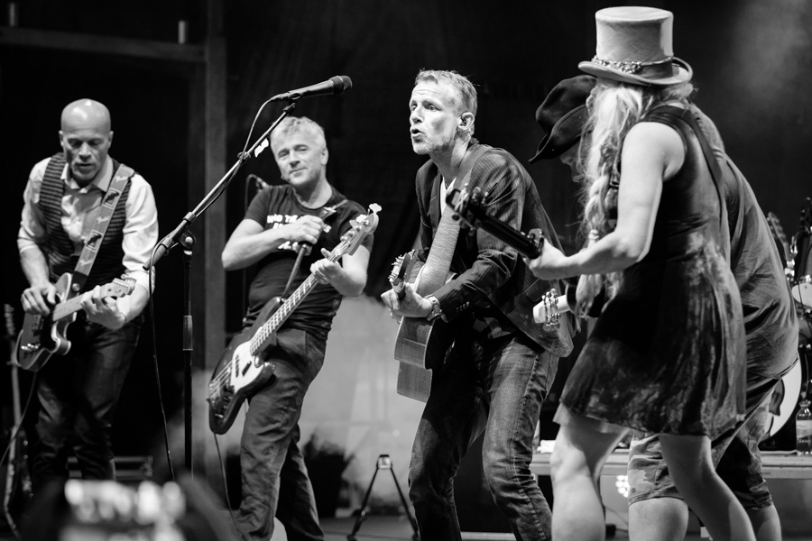 Di Derre and Unni Wilhelmsen at Gamle Norge. The concert was part of Kongsberg Jazzfestival and took place on 04. July 2018 in Kongsberg. Lineup: Jo Nesbø (vocal and guitar) Unni Wilhelmsen (vocal and guitar) Magnus Larsen (bass guitar) Espen Stenhammer (drums) Halvor Holter (keyboard) Lars Jones (guitar)